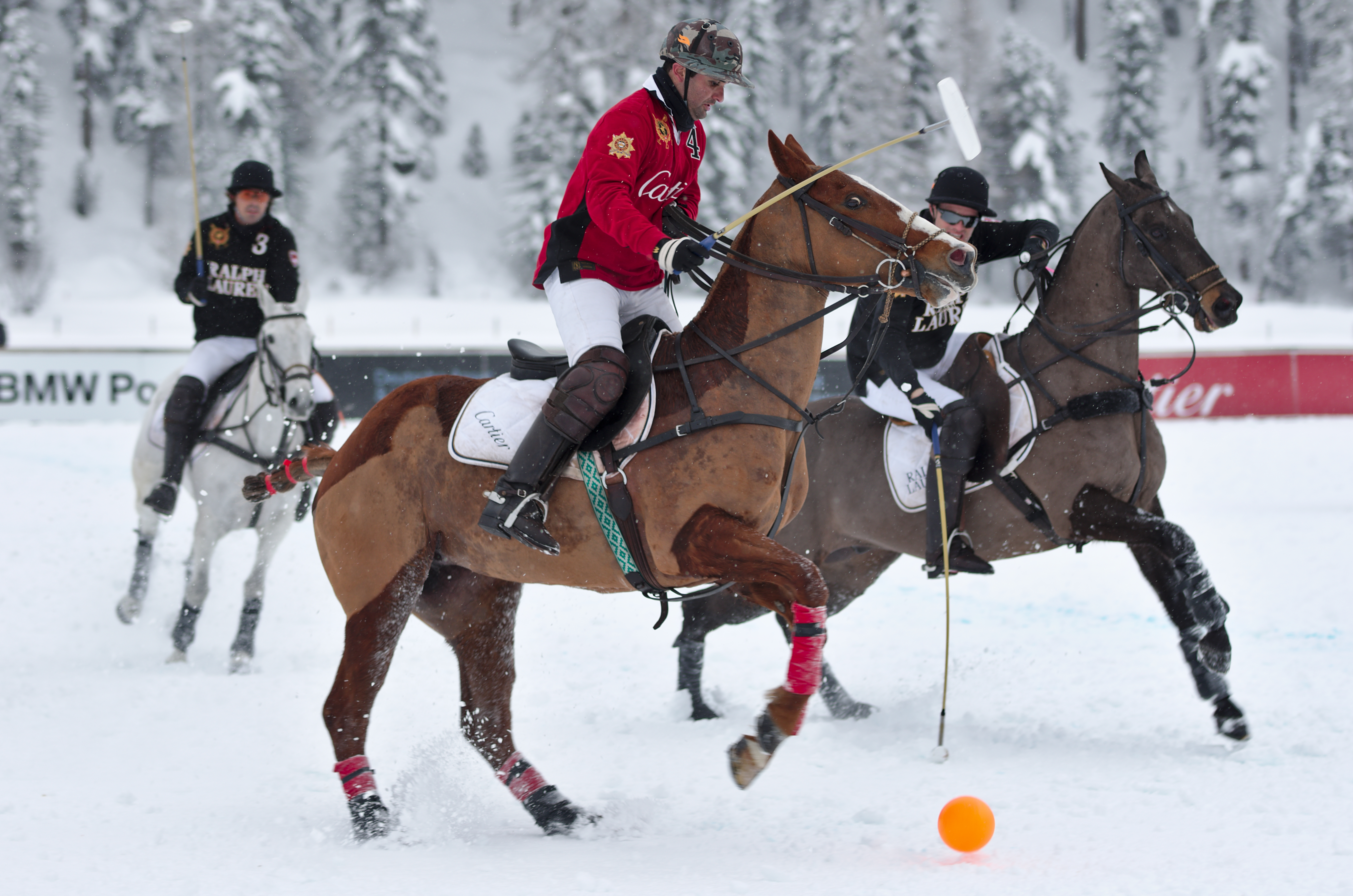 30th St. Moritz Polo World Cup on Snow: team Cartier vs Ralph Lauren, played in February 2, 2014